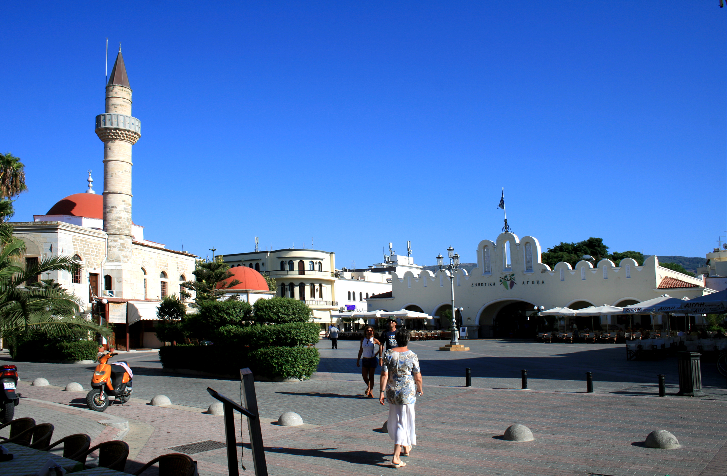 Building of old marketplace Agora and mosque with minaret in town Kos on Kos island, Greece